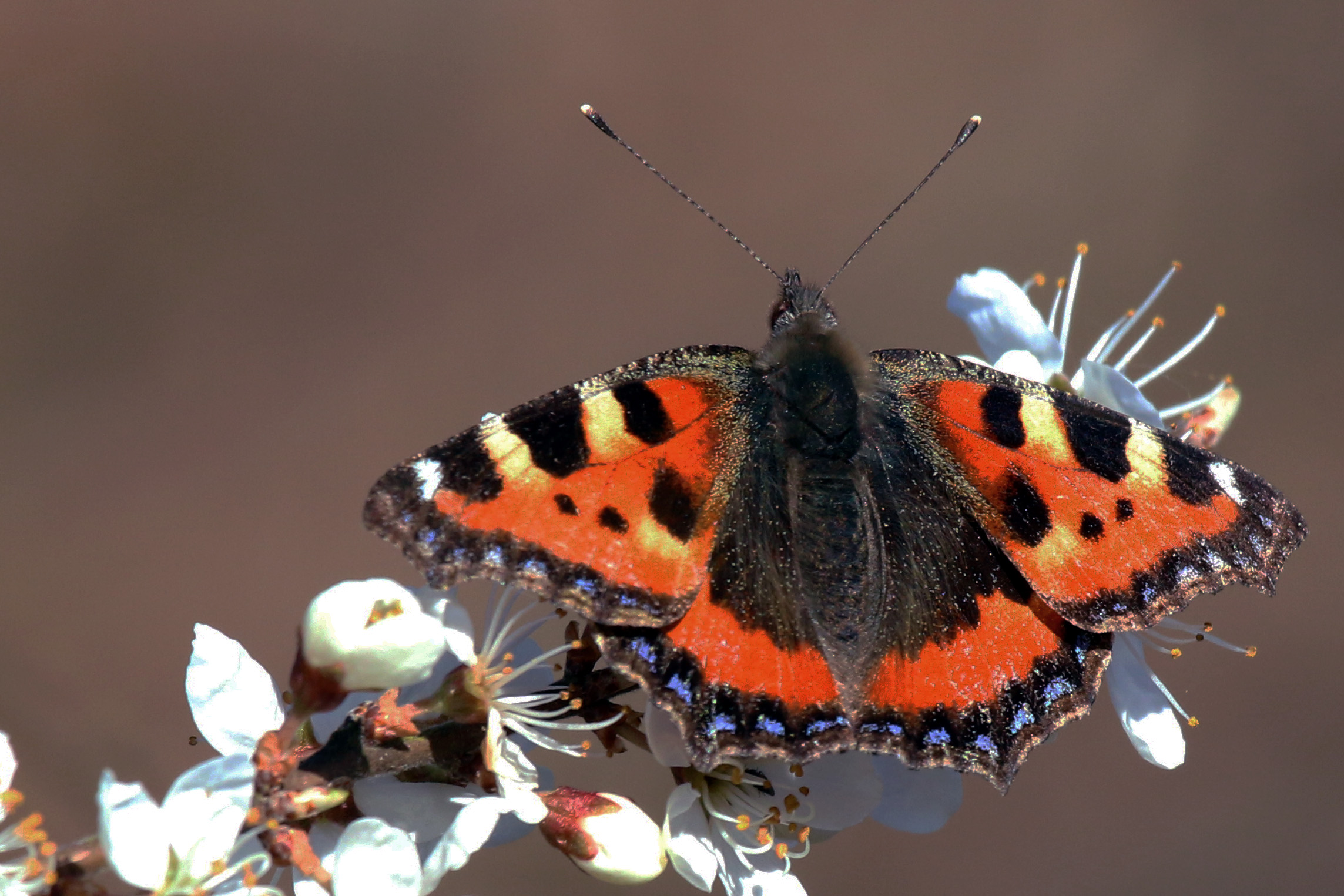 Small Tortoiseshell butterfly Aglais urticae at Otmoor RSPB reserve, Oxfordshire